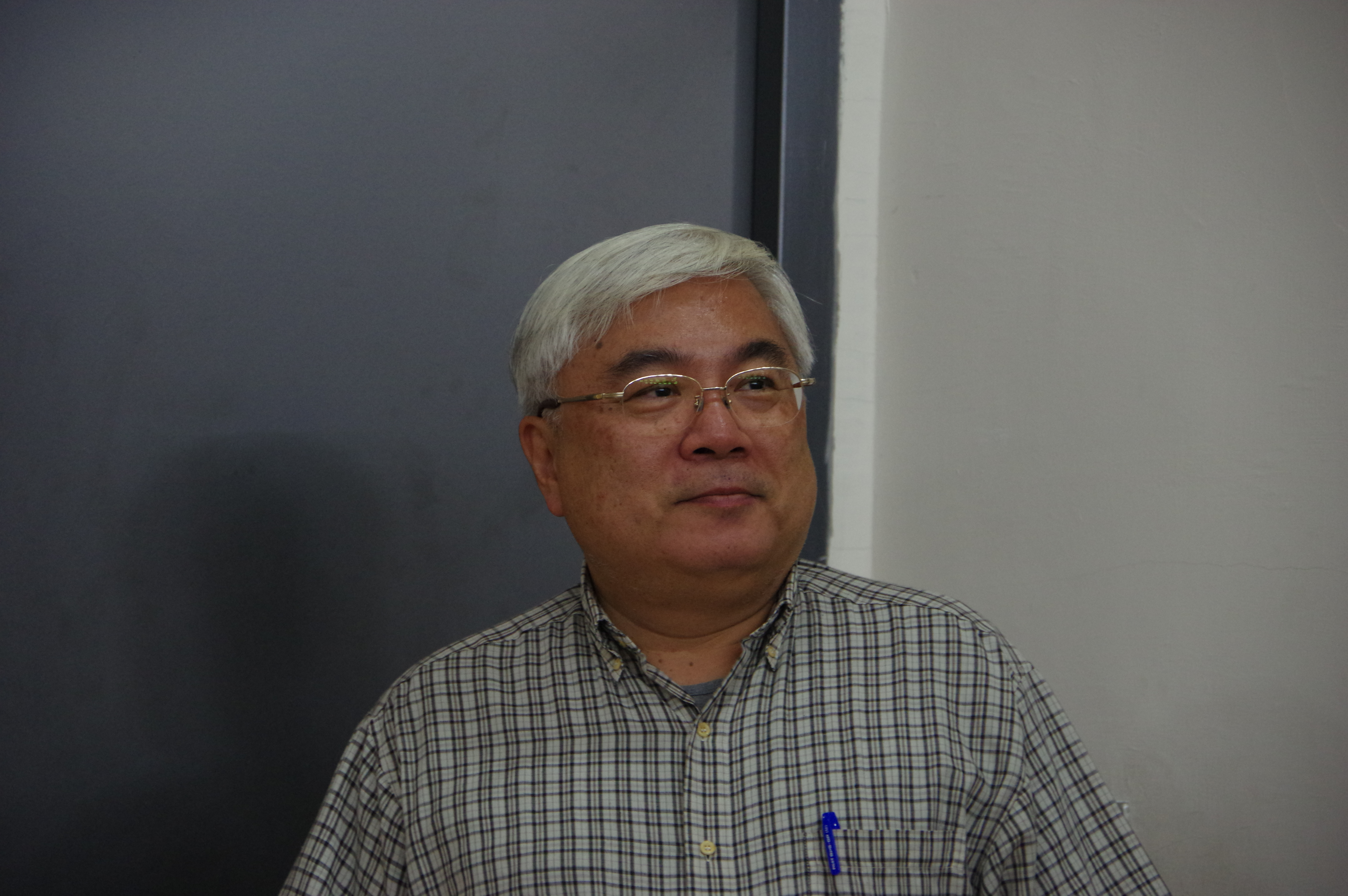 Taiwanese Astronomer Dr. Wen-Ping Chen.